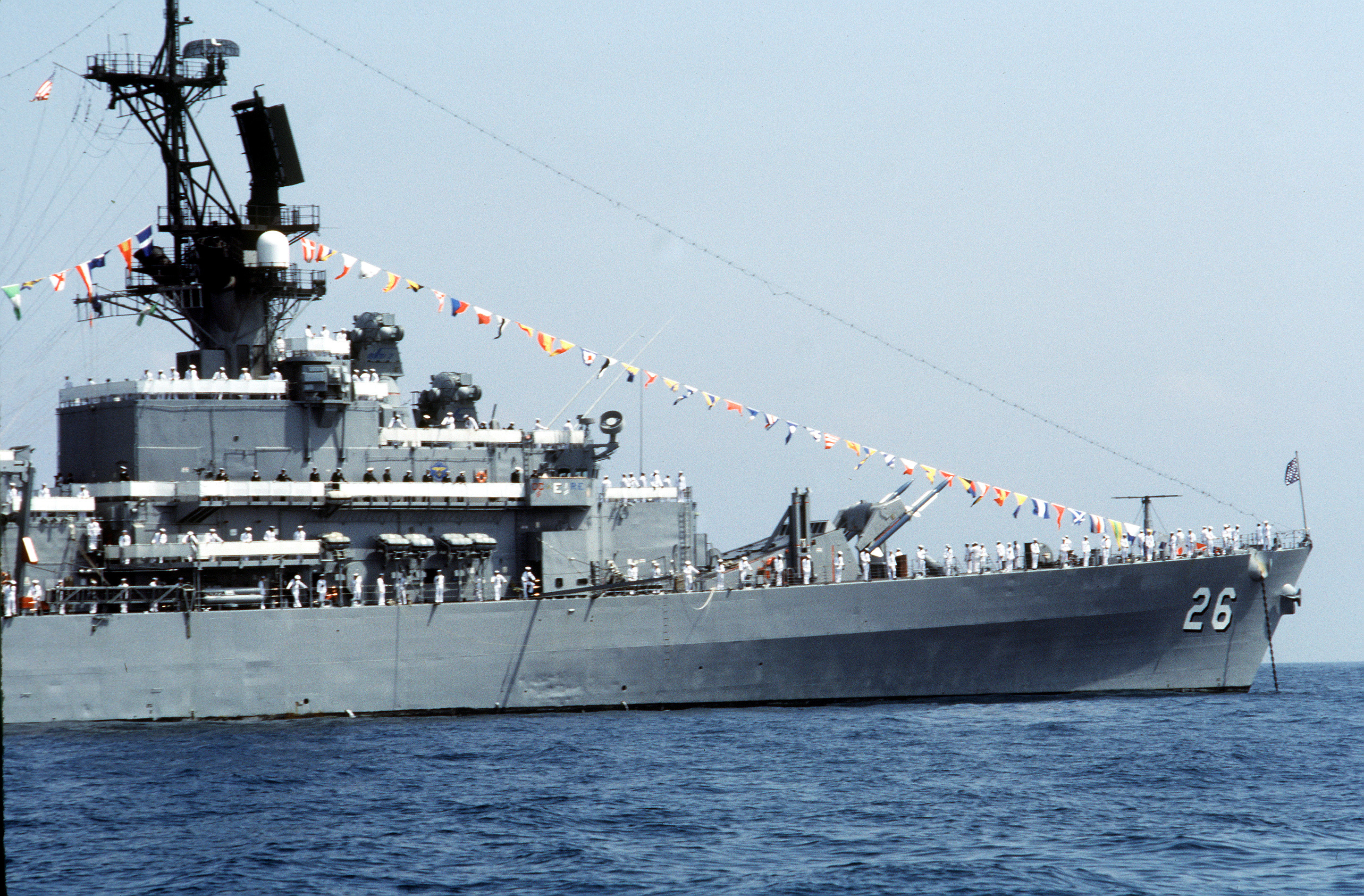 Crewmembers man the rails at the stern of the U.S. Navy guided missile cruiser USS Belknap (CG-26) as the ship lies at anchor at Barcelona, Spain, on 4 October 1990. Belknap was taking part in an international naval review presided by the Spanish King Juan Carlos and Queen Sophia.